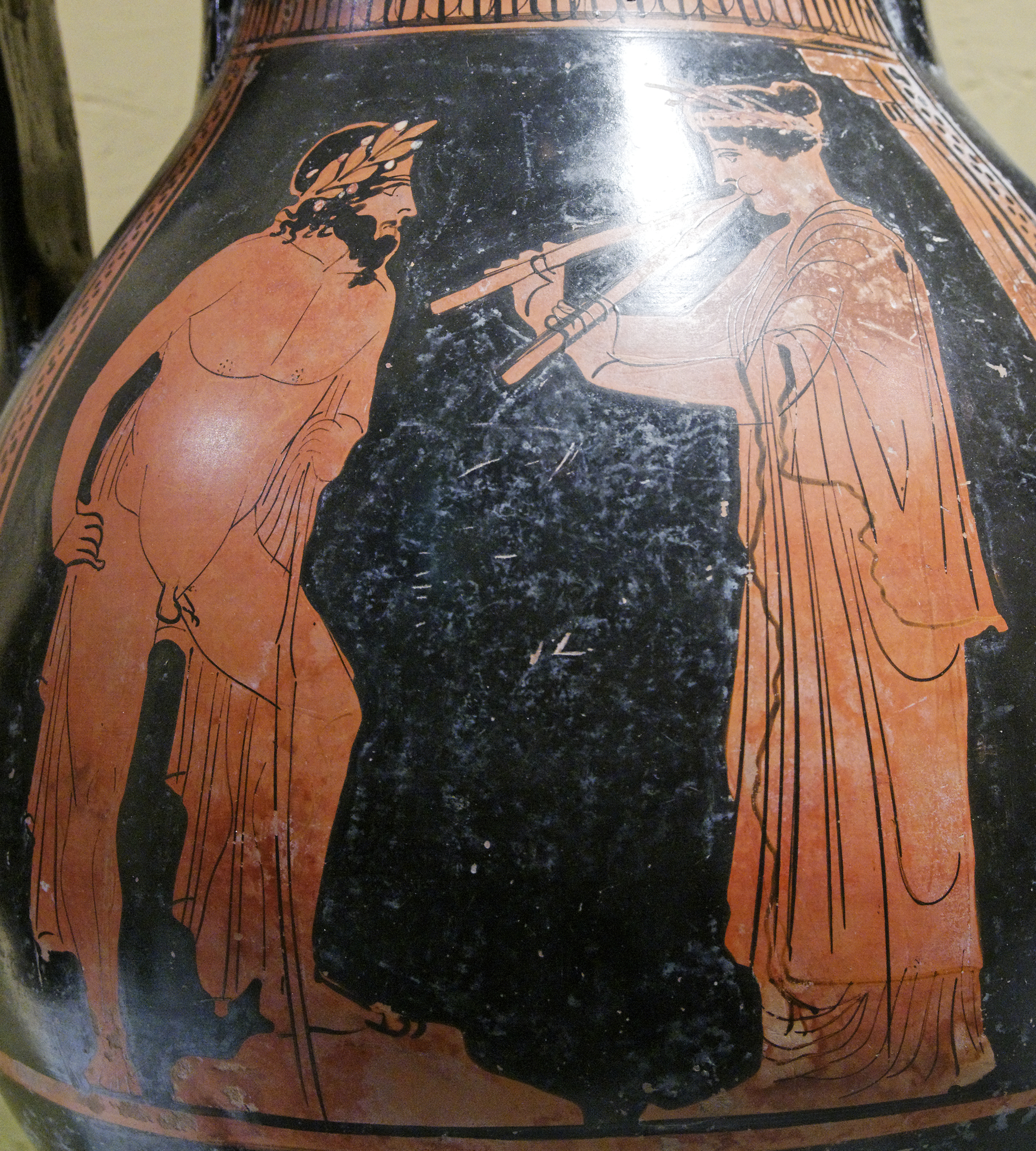 Komast and aulos player. Side A from an Attic red-figured pelike. From Rhodes.